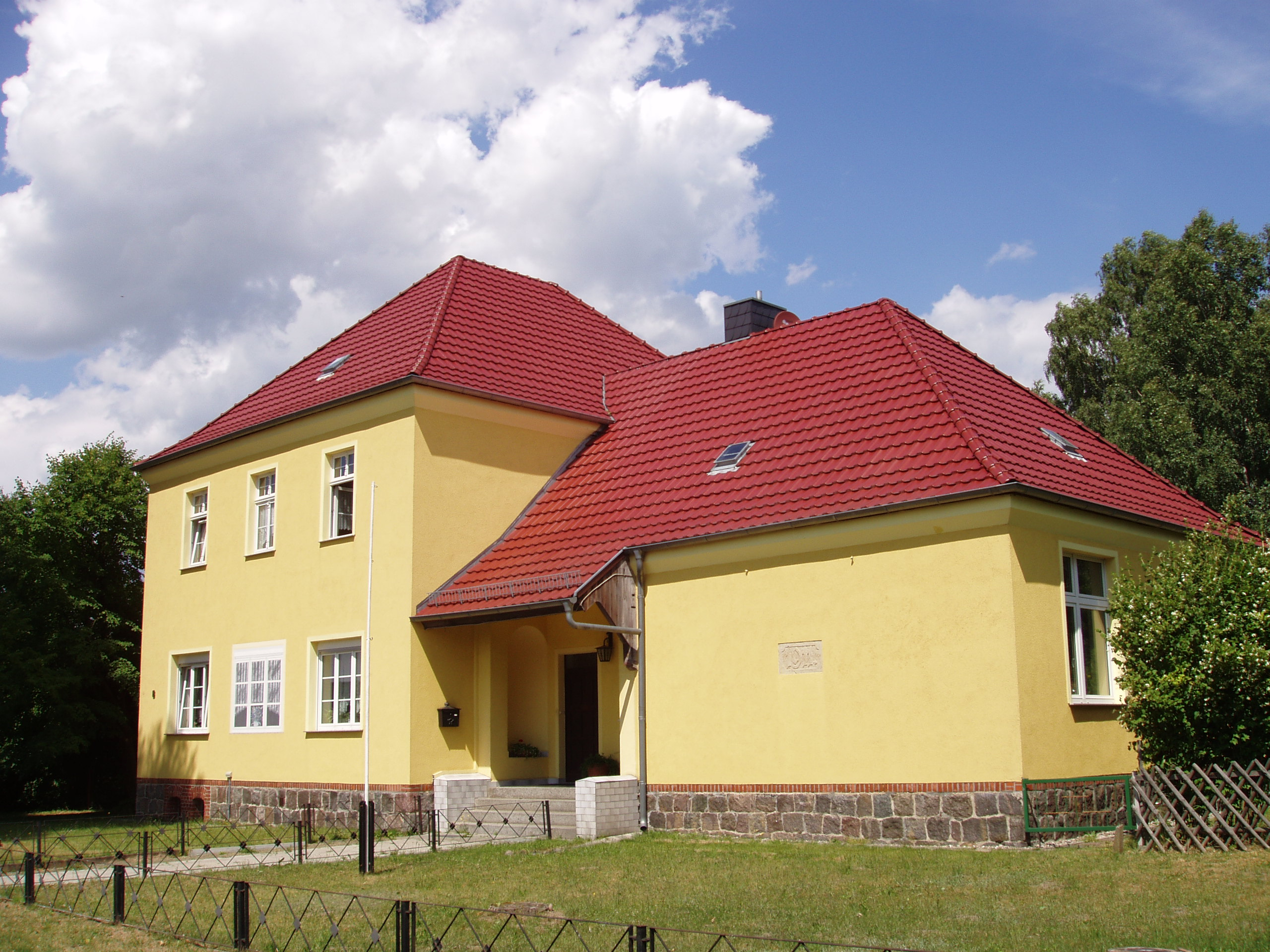 old school house with „Heimatstube“, Britz near Eberswalde, Brandenburg, Germany